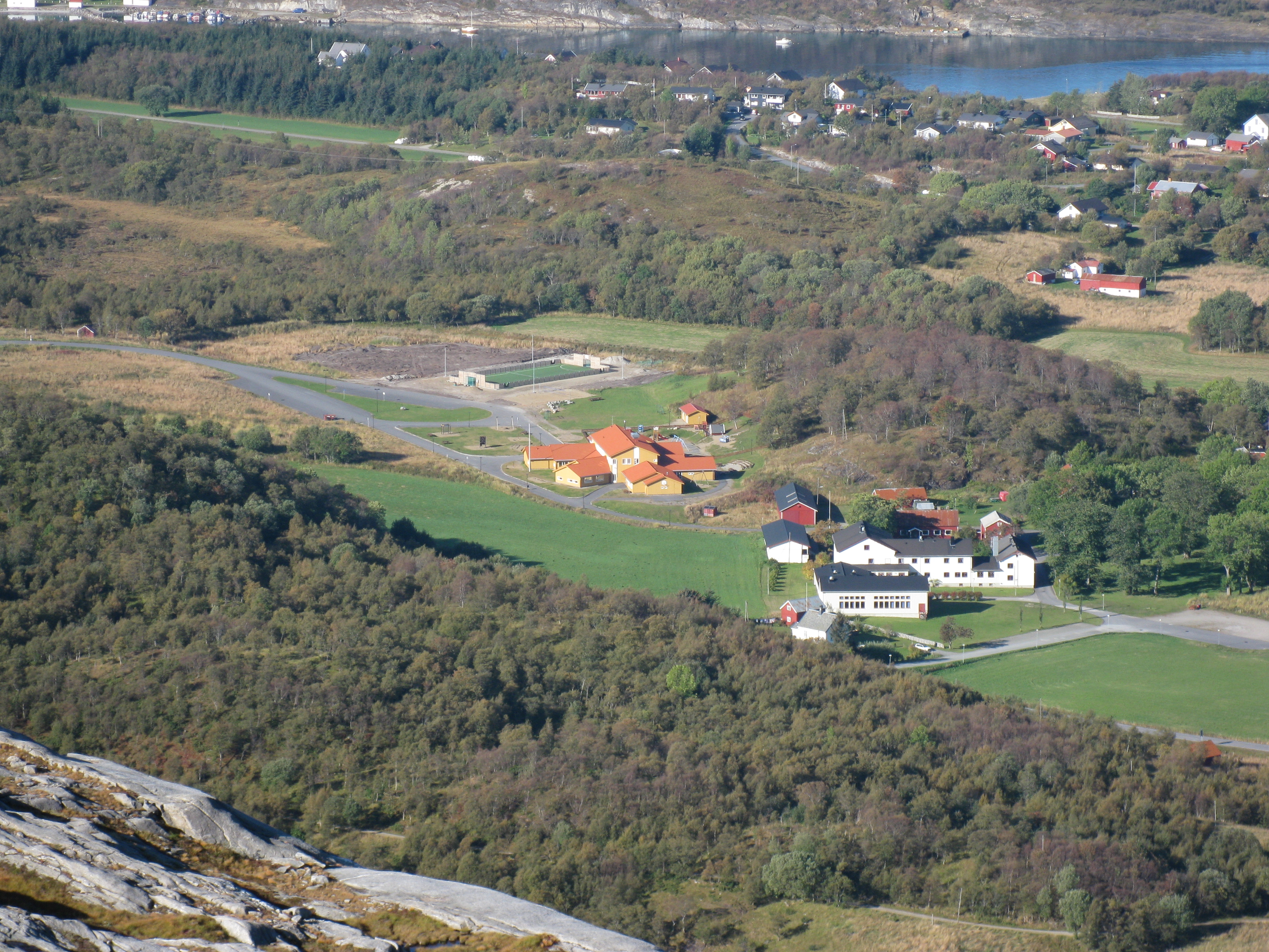 Søvik Elementary School in Alstahaug Norway.